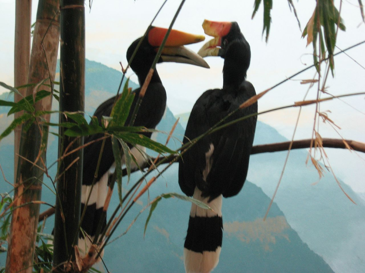 A couple of Hornbills Buceros rhinoceros